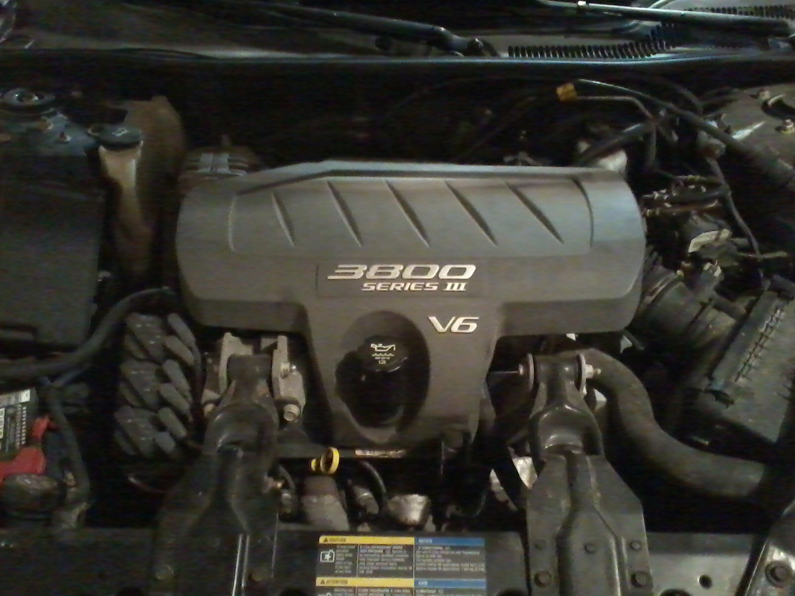 3800 Series III with cover (in a Pontiac Grand Prix)